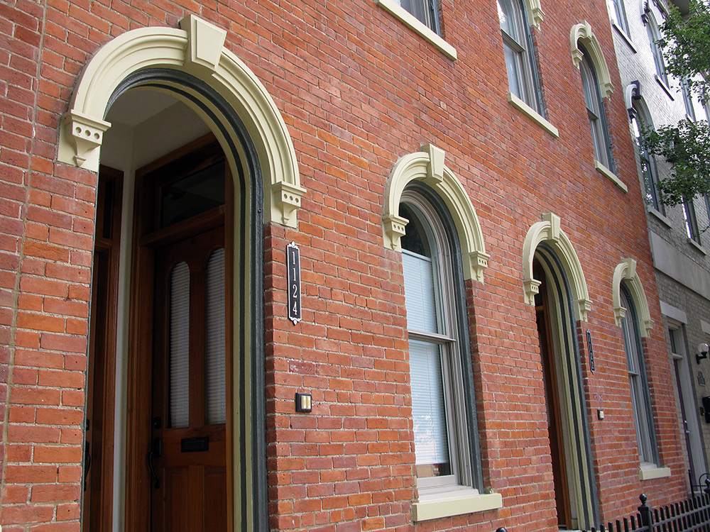 Rounded window cornices on a building at 1124 Race Street in Over-the-Rhine, Cincinnati, Ohio.